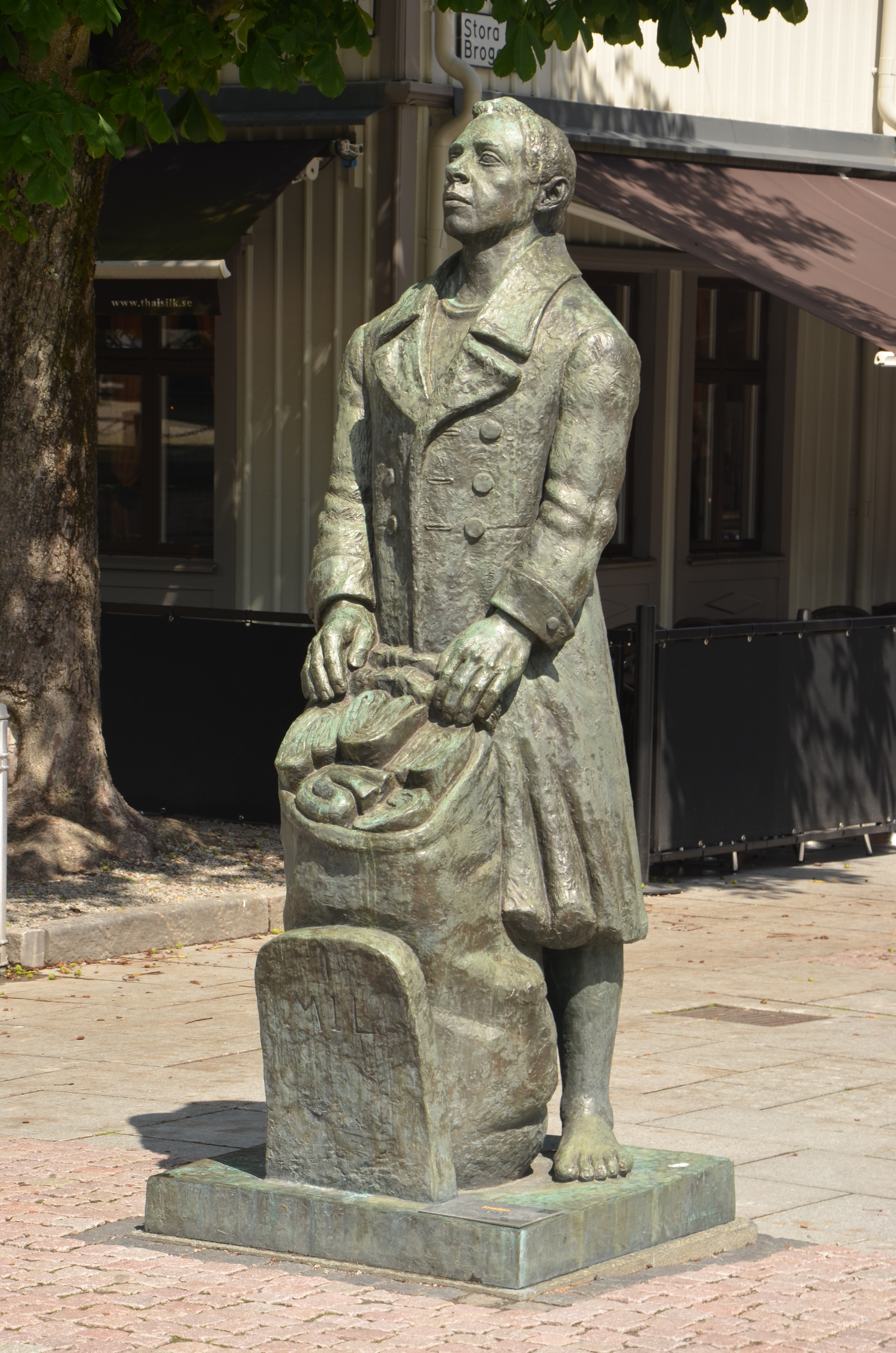 Arvid Knöppel's Knallen, Borås